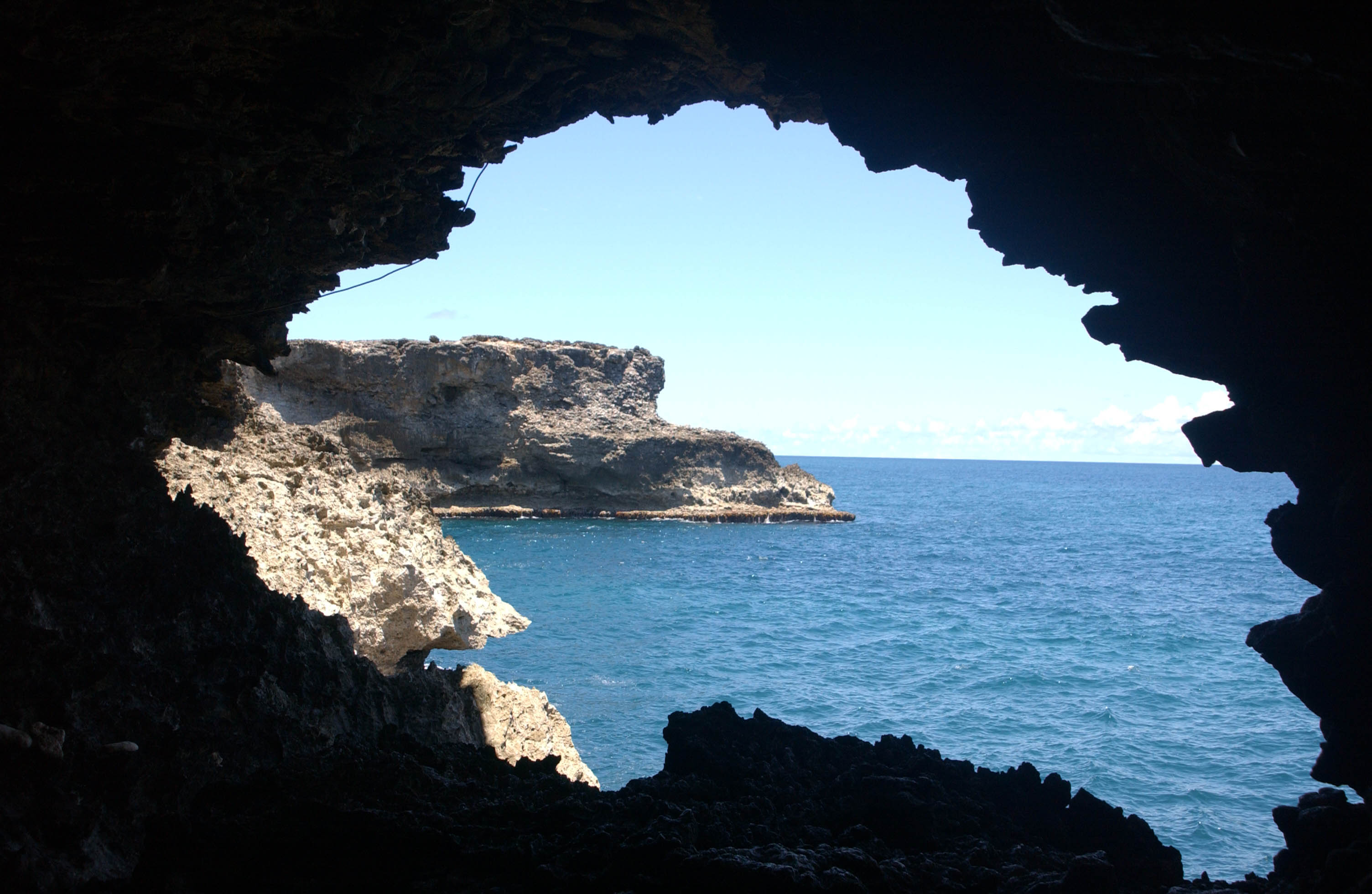 THIS IS BARBADOS' ONLY SEA CAVE AND SHOWS STUNNING VIEWS OF THE COAST FROM INSIDE THE CAVE